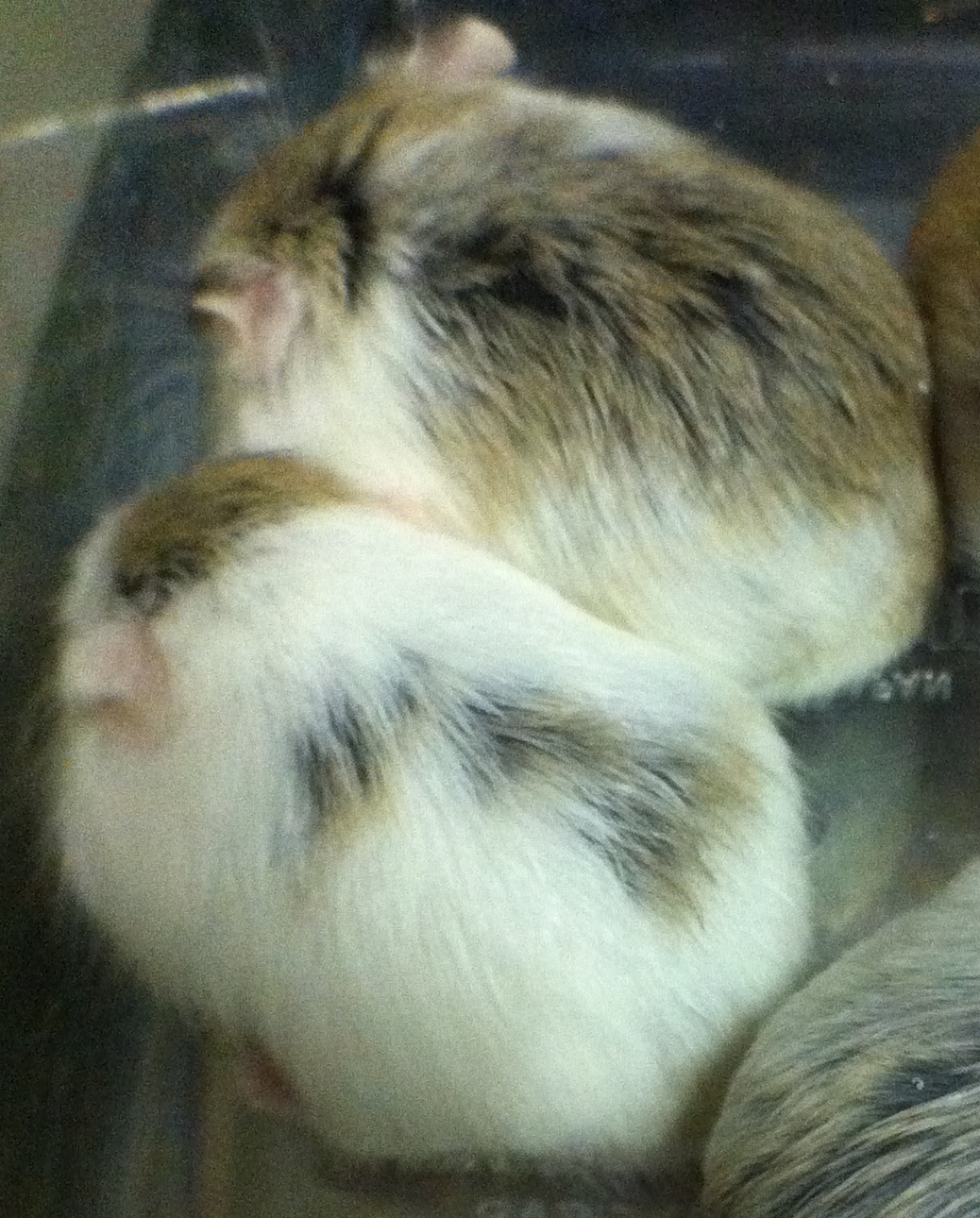 The Pied Roborovski2